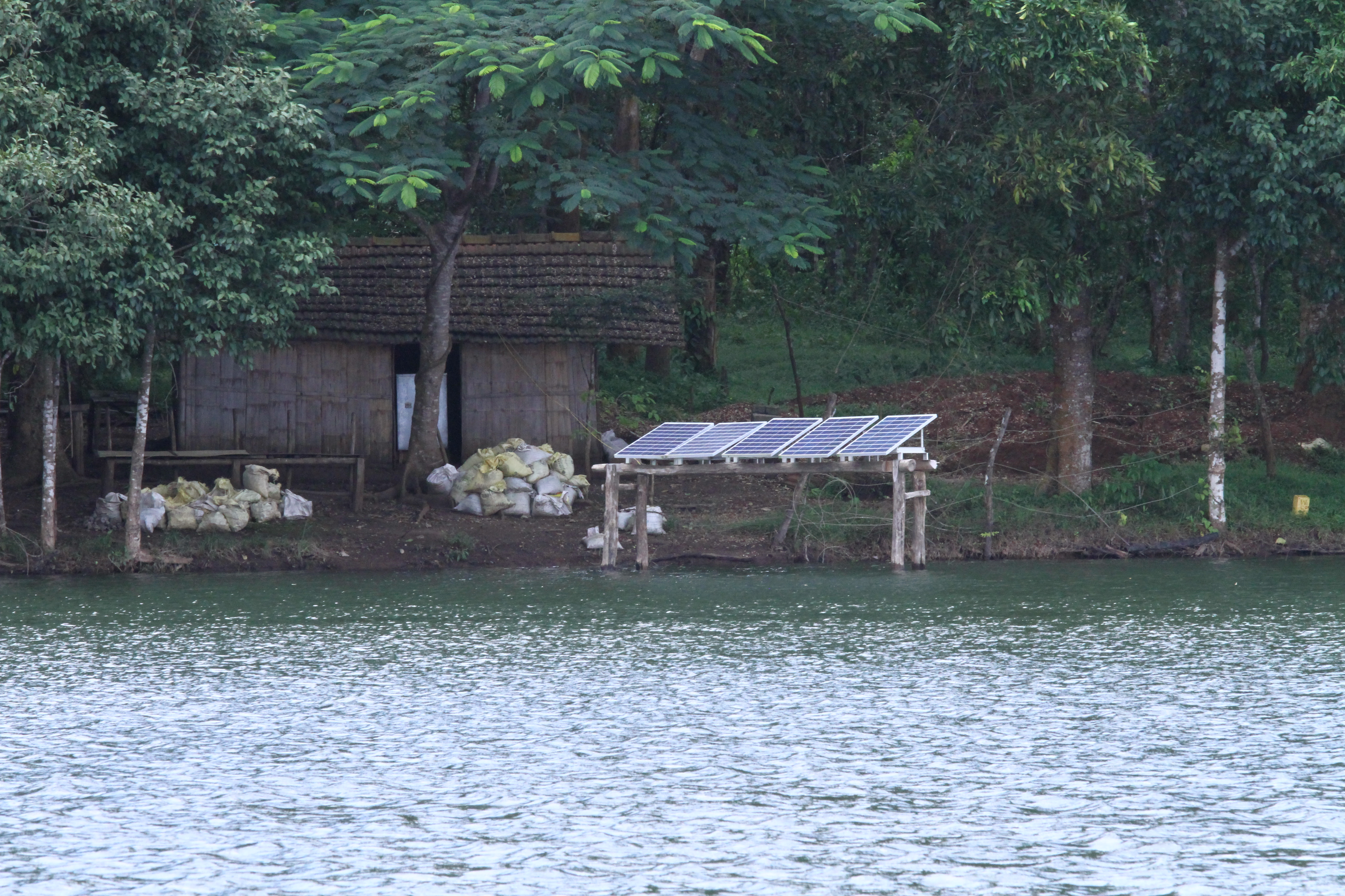 Solar Panels at an island used as part of an eco-tourism package at Parambikulam Tiger Reserve, Palakkad, Kerala, India. Photo Credits: Manukrishna CK, Praveen R, Parambikulam Tiger Conservation Foundation.